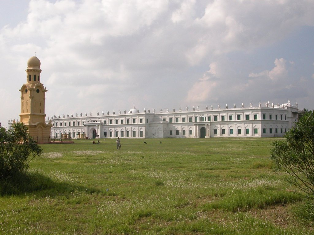 this imamabara is the largest in west bengal and probably the largest in india is in berhampore,reflecting the radiance of nawabs.